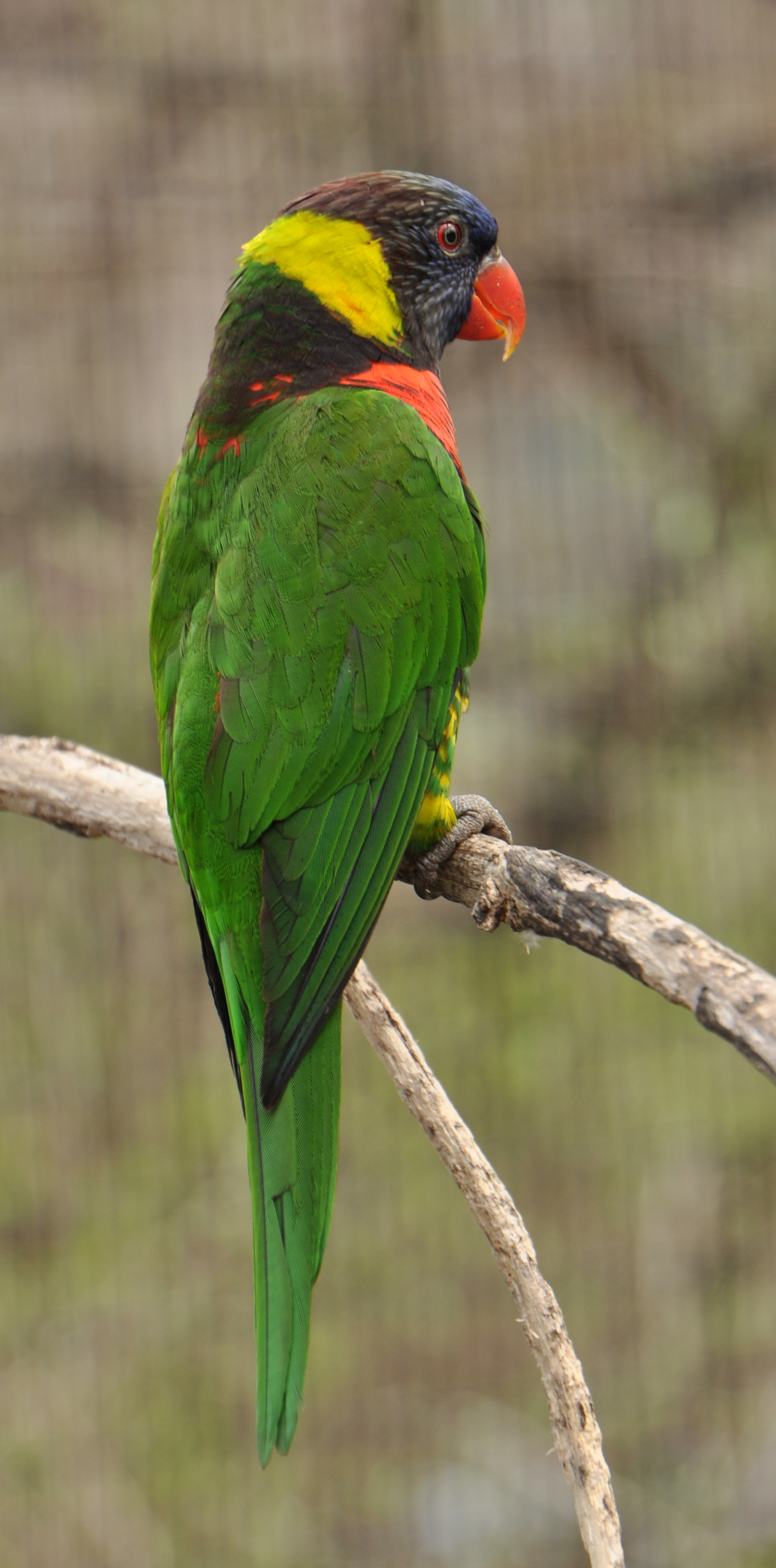 A Sunset Lorikeet (also known as the Scarlet-breasted Lorikeet and Forsten's Lorikeet) at Cincinnati Zoo, Ohio, USA.